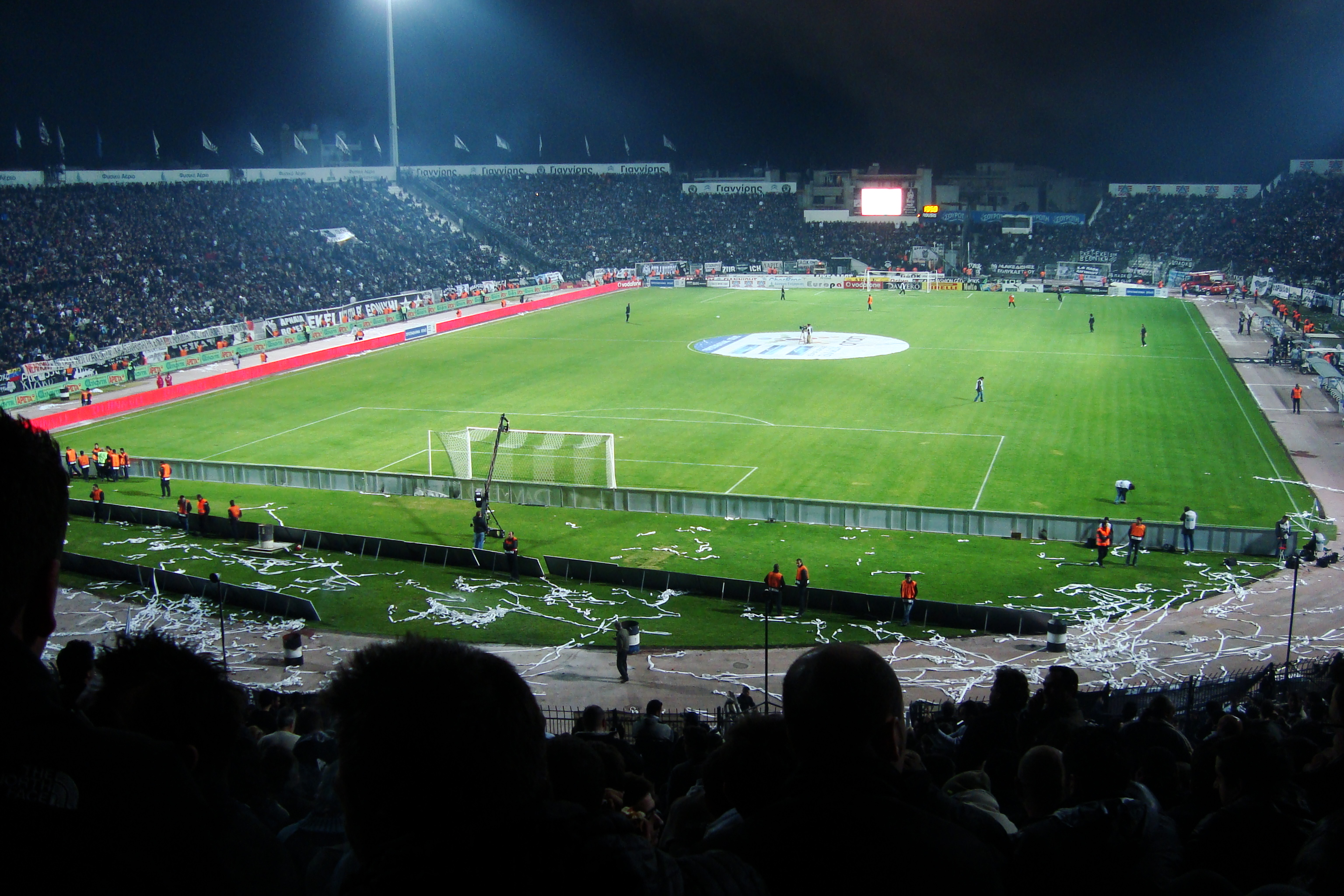 This is a view of Toumba pitch during PAOK game.